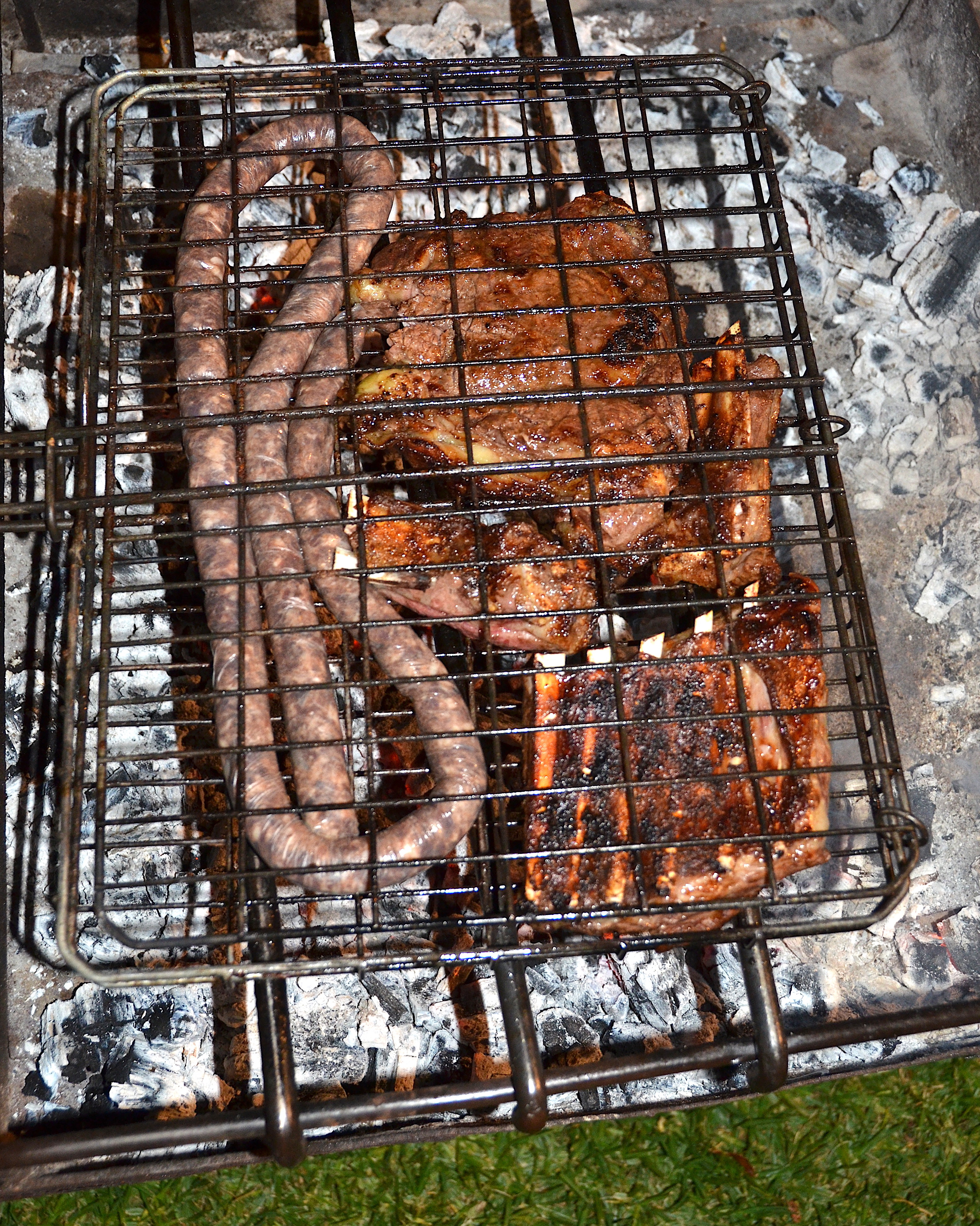 Grilled rack of lamb, chops and boerewors